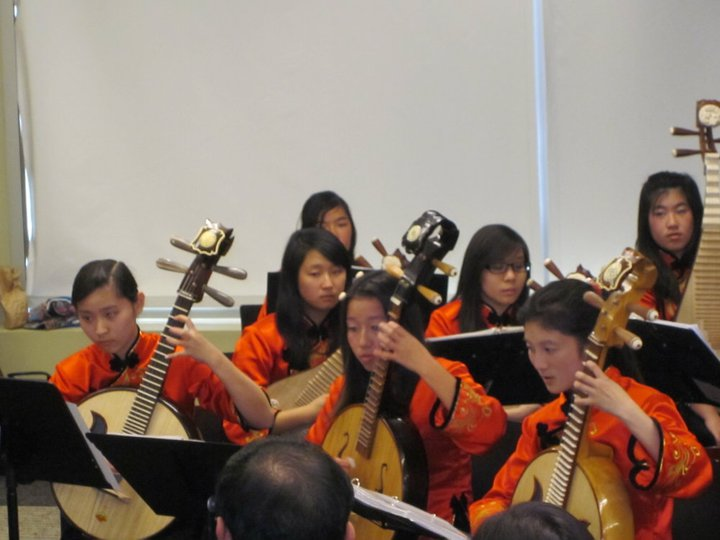 Firebird Youth Chinese Orchestra: Celebrating the Year of the Rabbit at the Evergreen Library! (foreground:) Likely to be ruan-family instruments rather than yuequin family, because of the presence of large soundholes. Also (hard to see in this photo--are the strings are used individually (a ruan trait), instead of being grouped in pairs (a yueqin trait)?